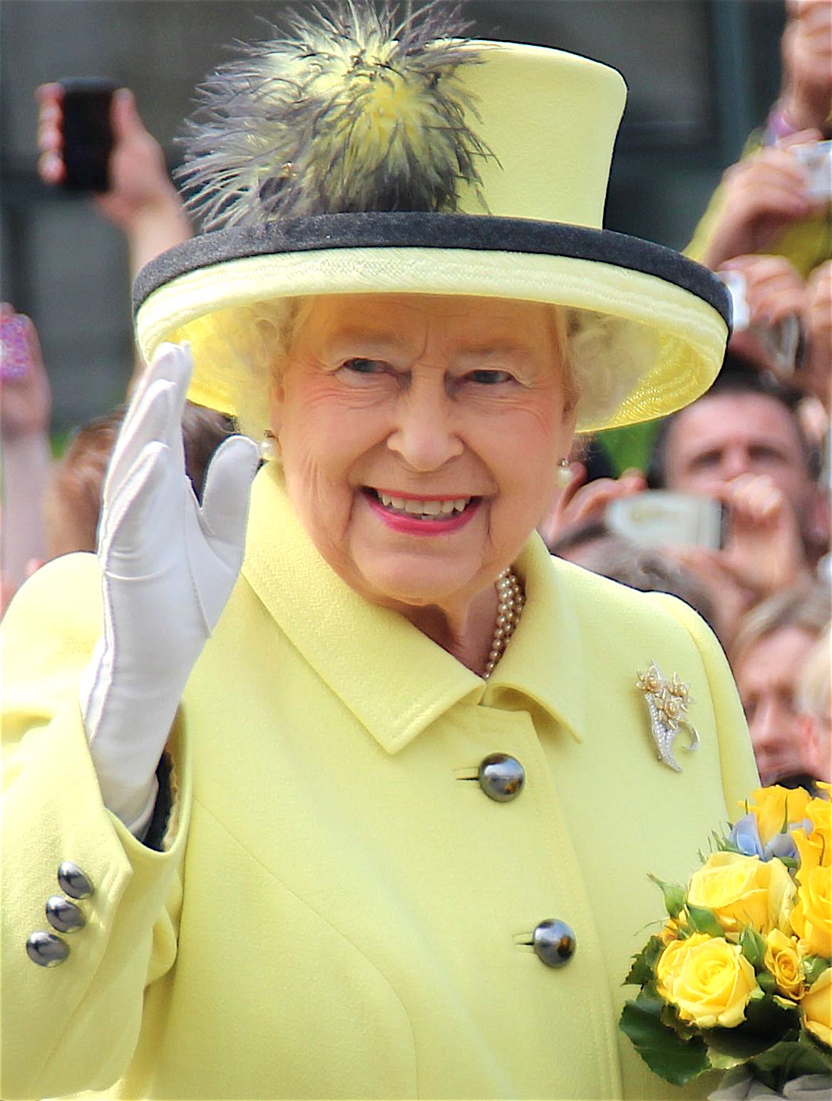 Elizabeth II in Berlin 2015, aged 89